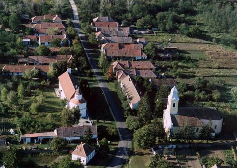 Pápoc, Hungary, aerialphotography